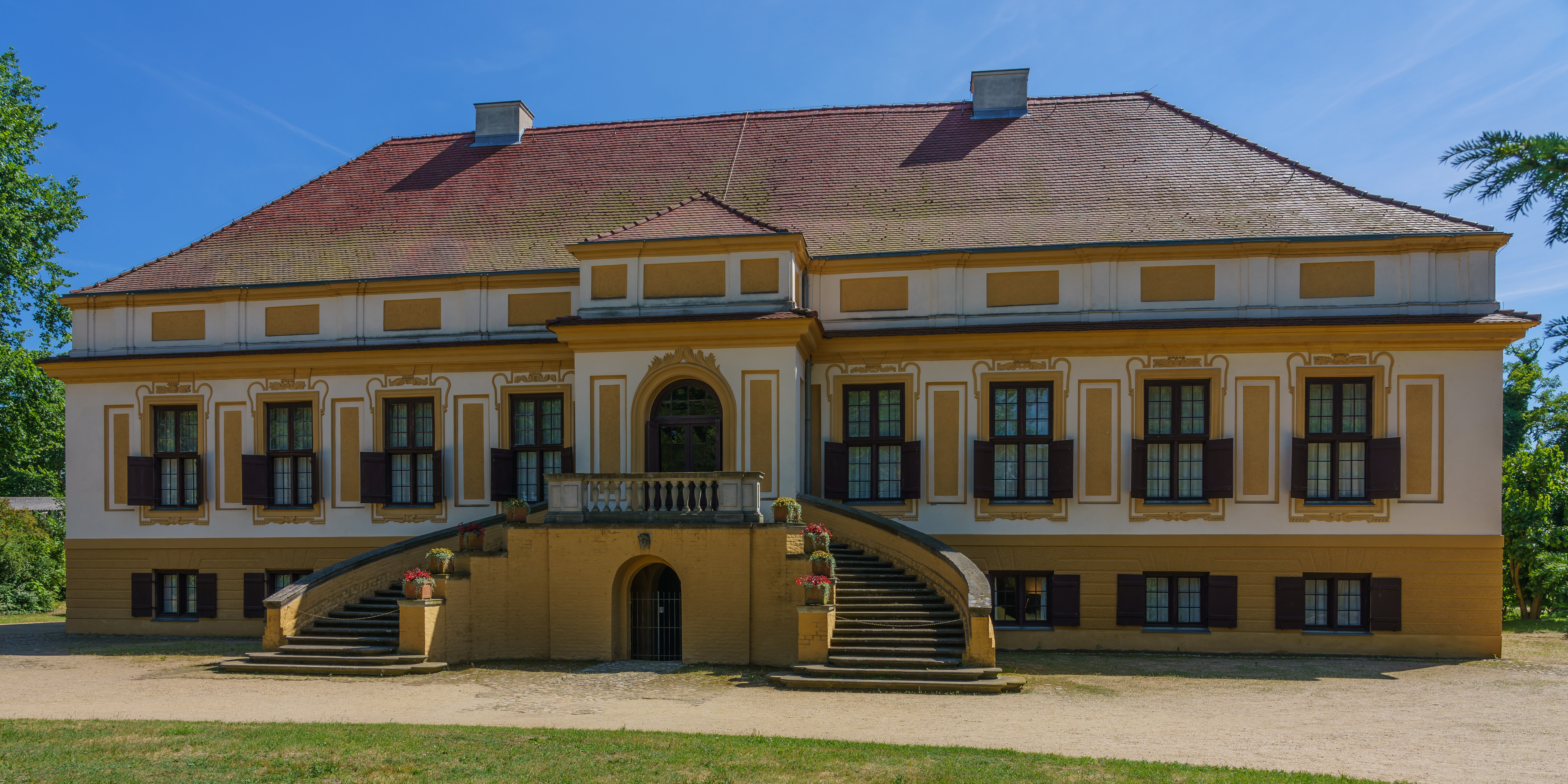 North facade of Caputh Castle near Potsdam, Germany